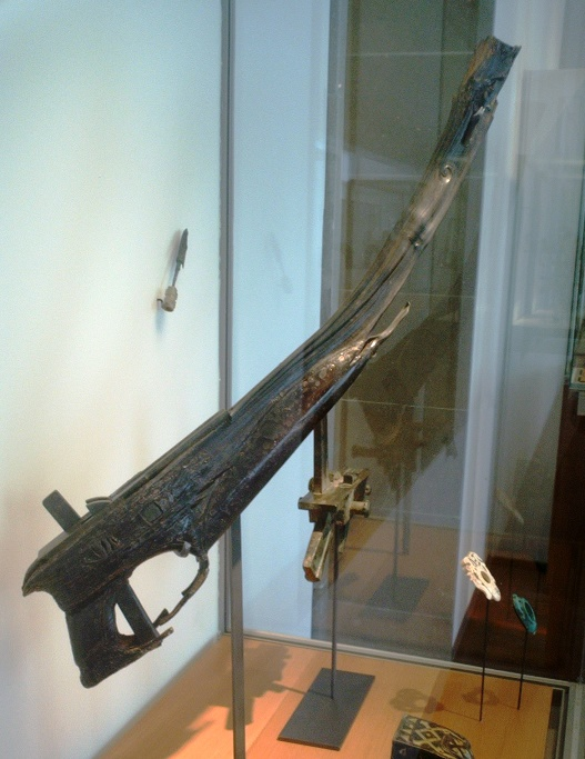 Ancient Chinese crossbow (en:2nd century BCE). Guimet Museum, Paris. Personal photograph, 2004, released in the Public Domain.